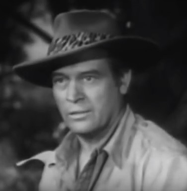 Leslie Bradley in Tarzan and the Trappers - cropped screenshot